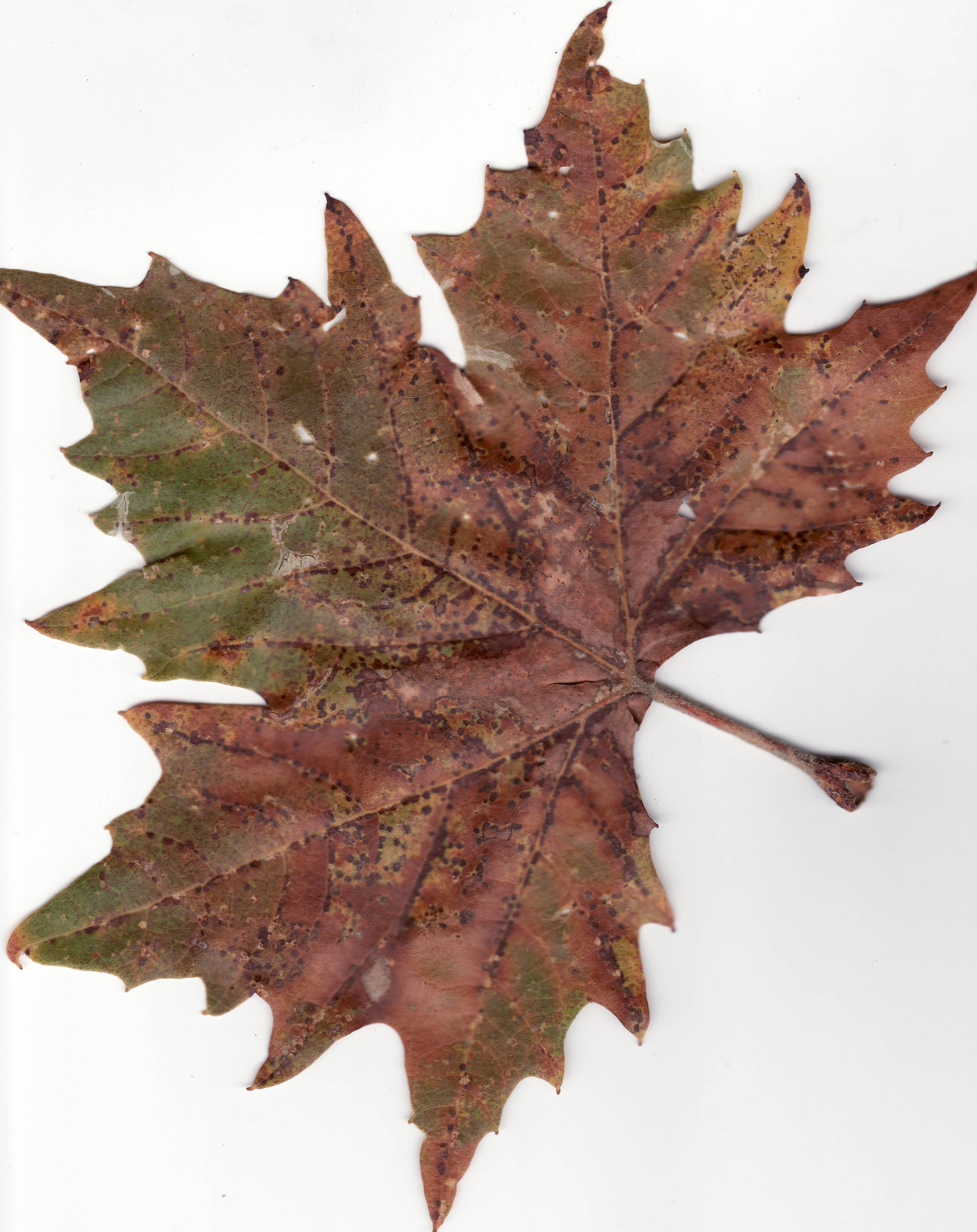 Scan of a leaf of a London Plane Platanus × hispanica changing colors during autumn. The leaf was obtained on the campus of Brigham Young University.